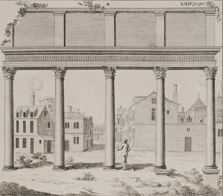 Richard Pococke. A Description of the East, and some other Countries, London, W. Bowyer, MDCCXLV (1743-1745)